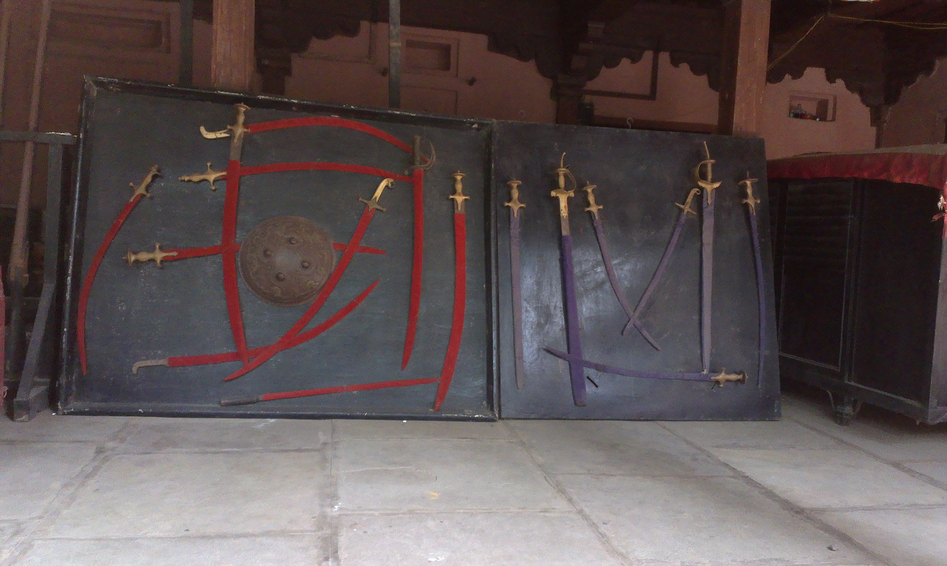 Weapons used by Holkars